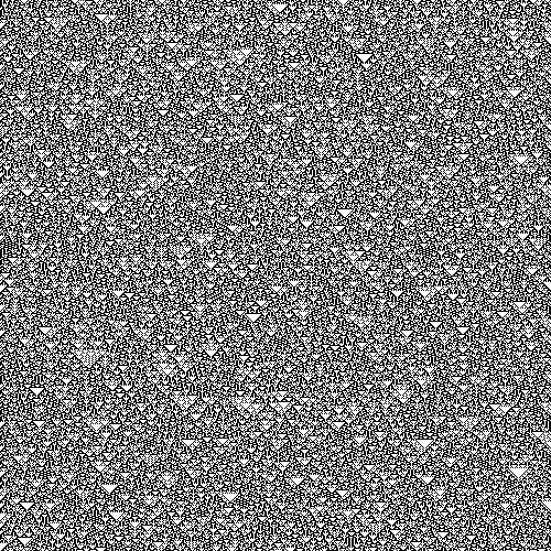 Cellular automaton rule 90 in response to a random set of initial conditions.